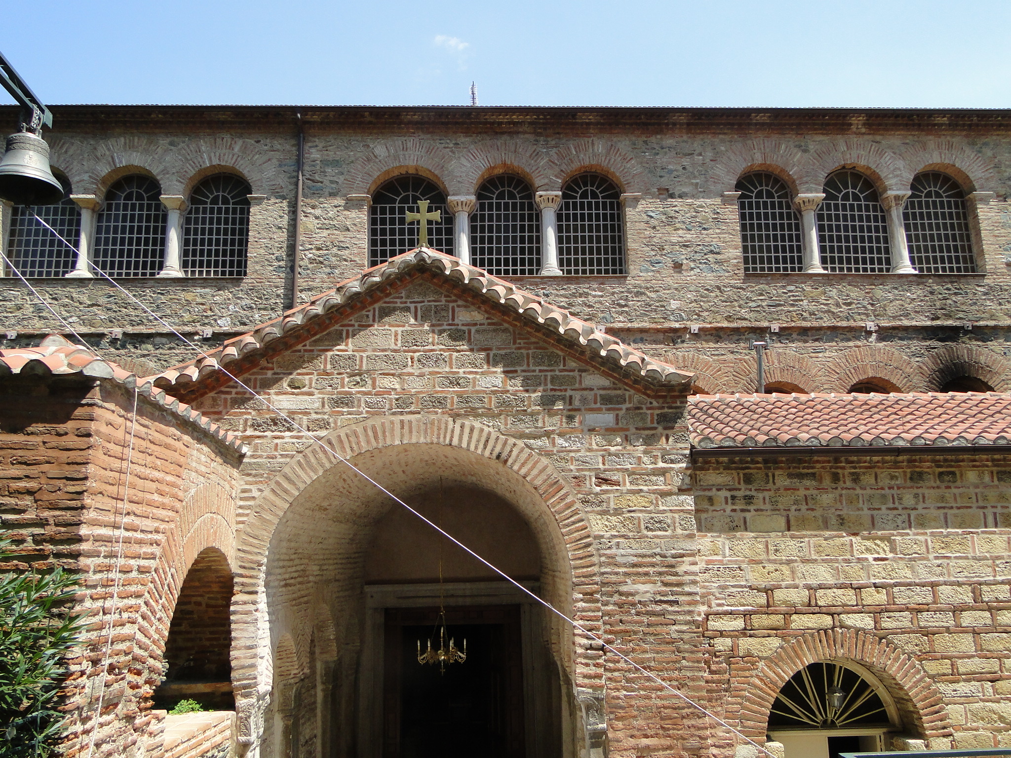 South-side propylum. Church of the Acherpoirtos.